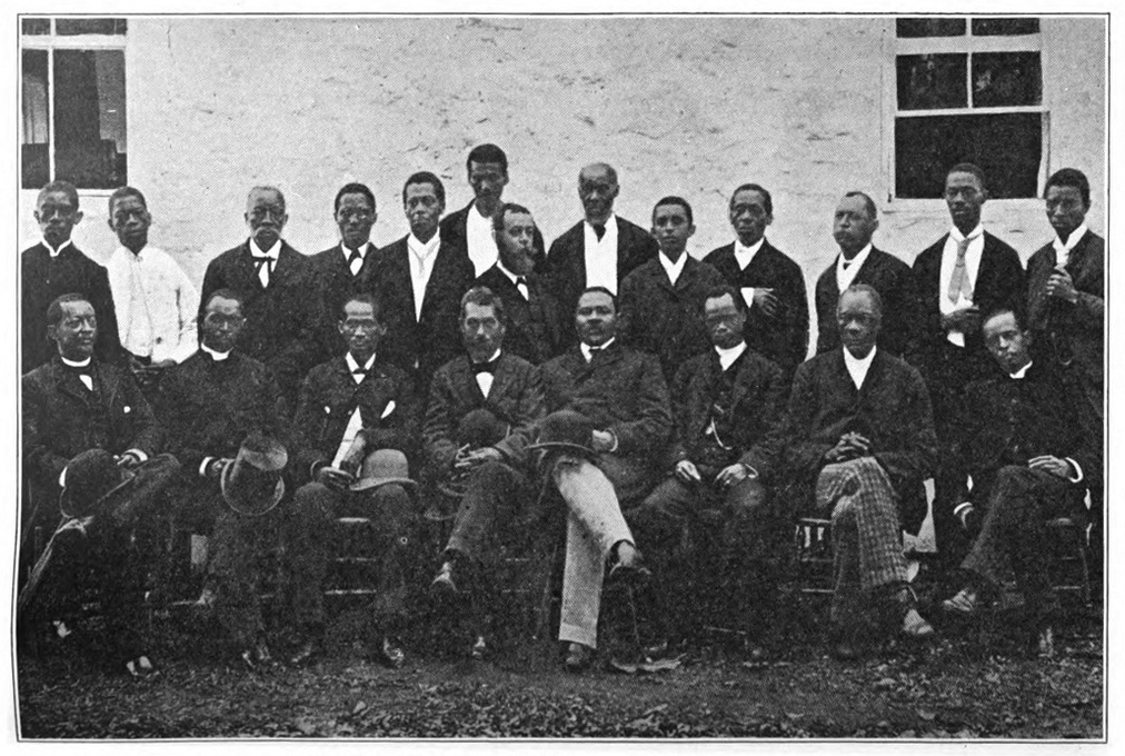 The Presbytery of Liberia